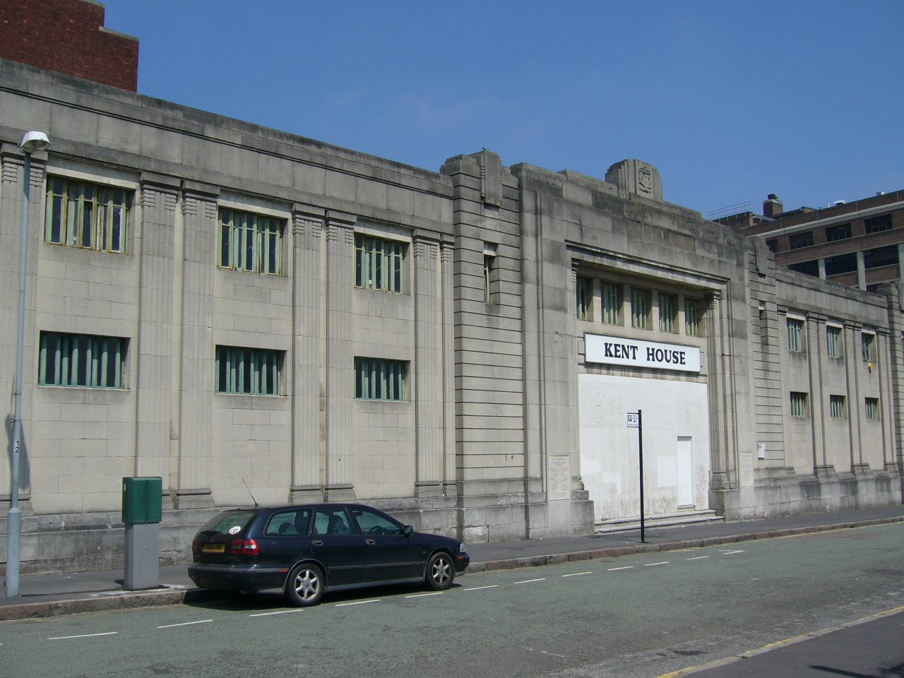 Created by Erebus555. This is Kent House, an empty building that once served as Birmingham's first public baths. This is the rebuilt facility.